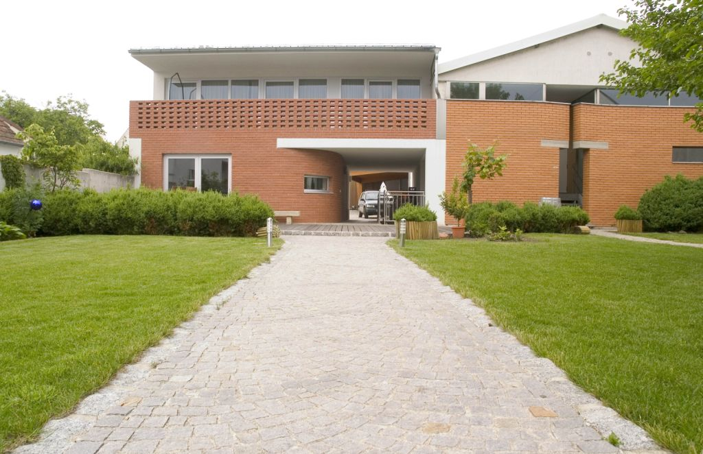 Weingut Prieler, Schützen am Gebirge